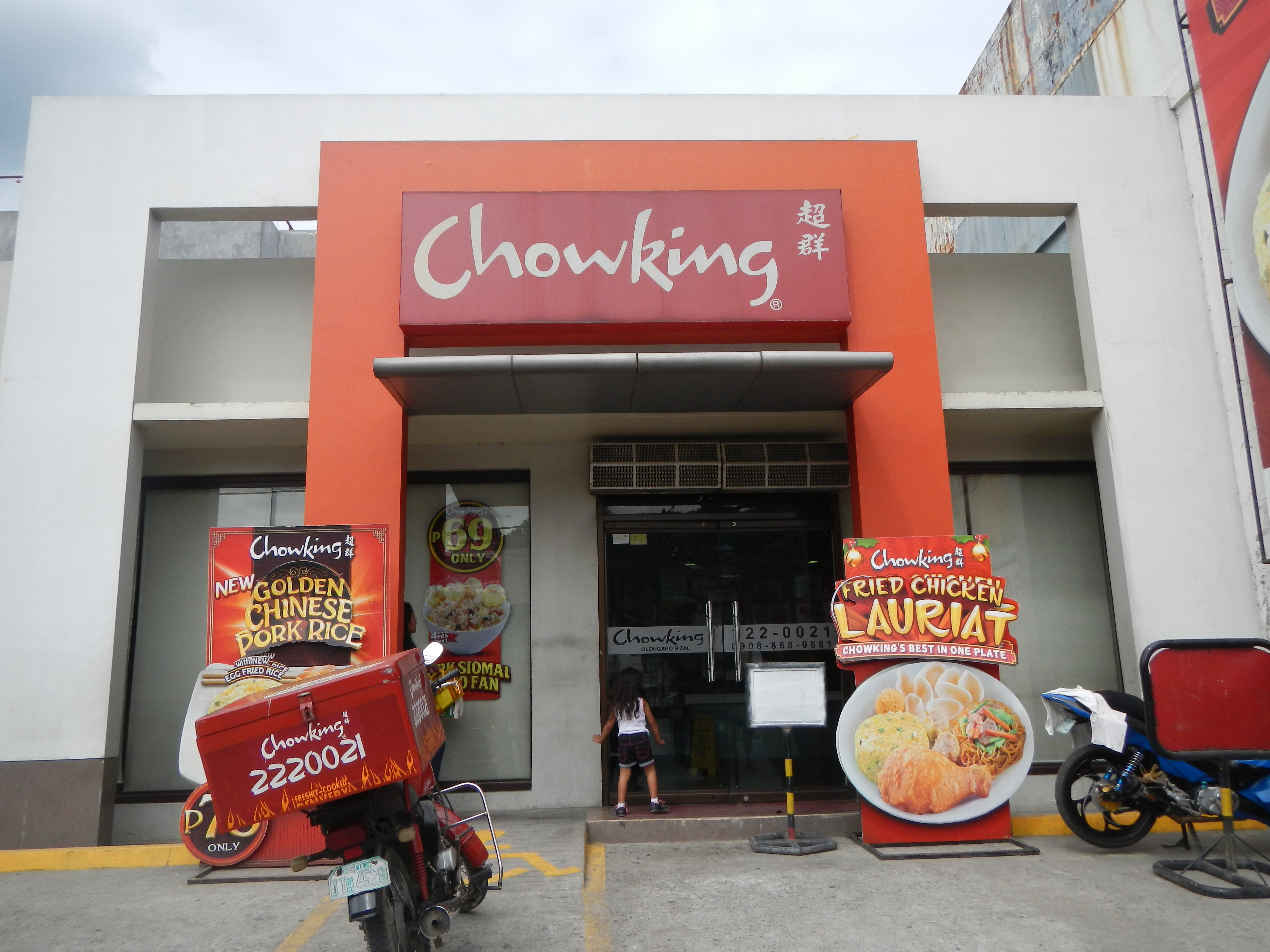 Upload Wizard photos of - - Pan-Philippine Highway[1] or Daang Maharlika - along the beautiful d) Olongapo City, Zambales[2] City Proper, the busy streets, Highway and Centre - 1953 Olongapo Library, Olongapo City Hall, beside the landmark Rizal Triangle Park, Rizal Triangle Multi-purpose Center, Benigno Aquino, Jr. Statue, and Jose Rizal Monument.